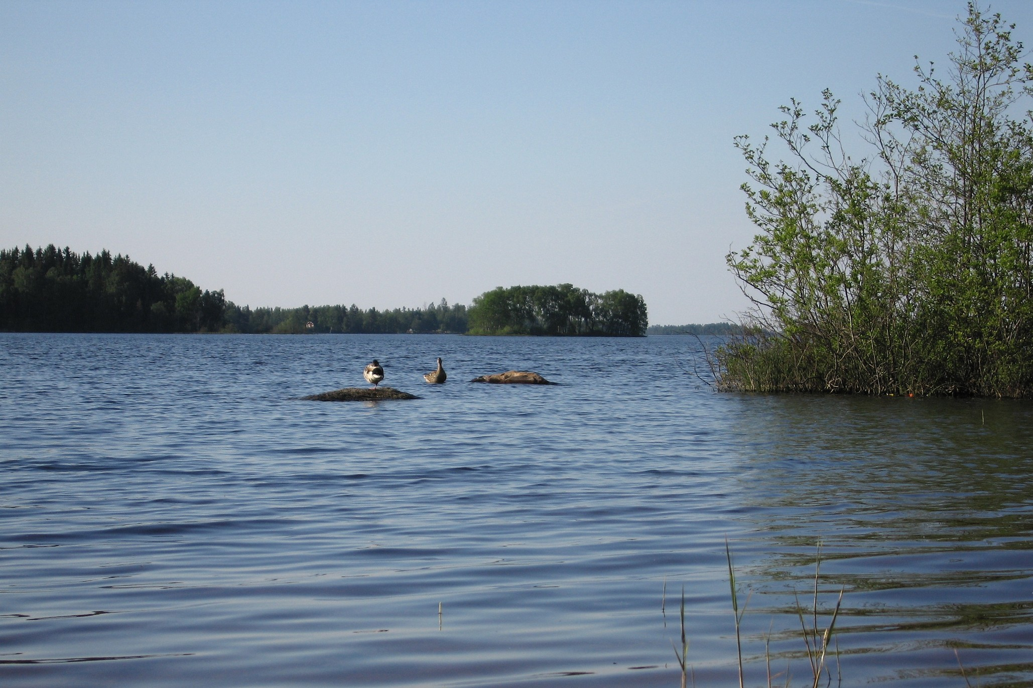 Lake Möckeln in Älmhult, Småland, Sweden.